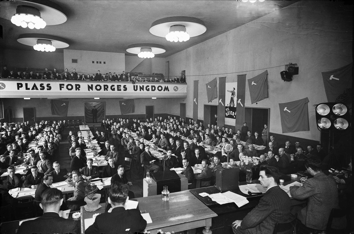 AUF congress 1937.